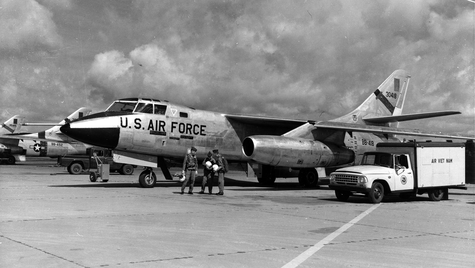 A U.S. Air Force 363rd Tactical Reconnaissance Wing Douglas RB-66B-DL Destroyer (s/n 53-0418) and its three-man crew on the flight line at Tan Son Nhut Air Base, Republic of Vietnam, 1965. A small number of RB-66Bs flew reconnaissance missions in Southeast Asia from 1965-1966.